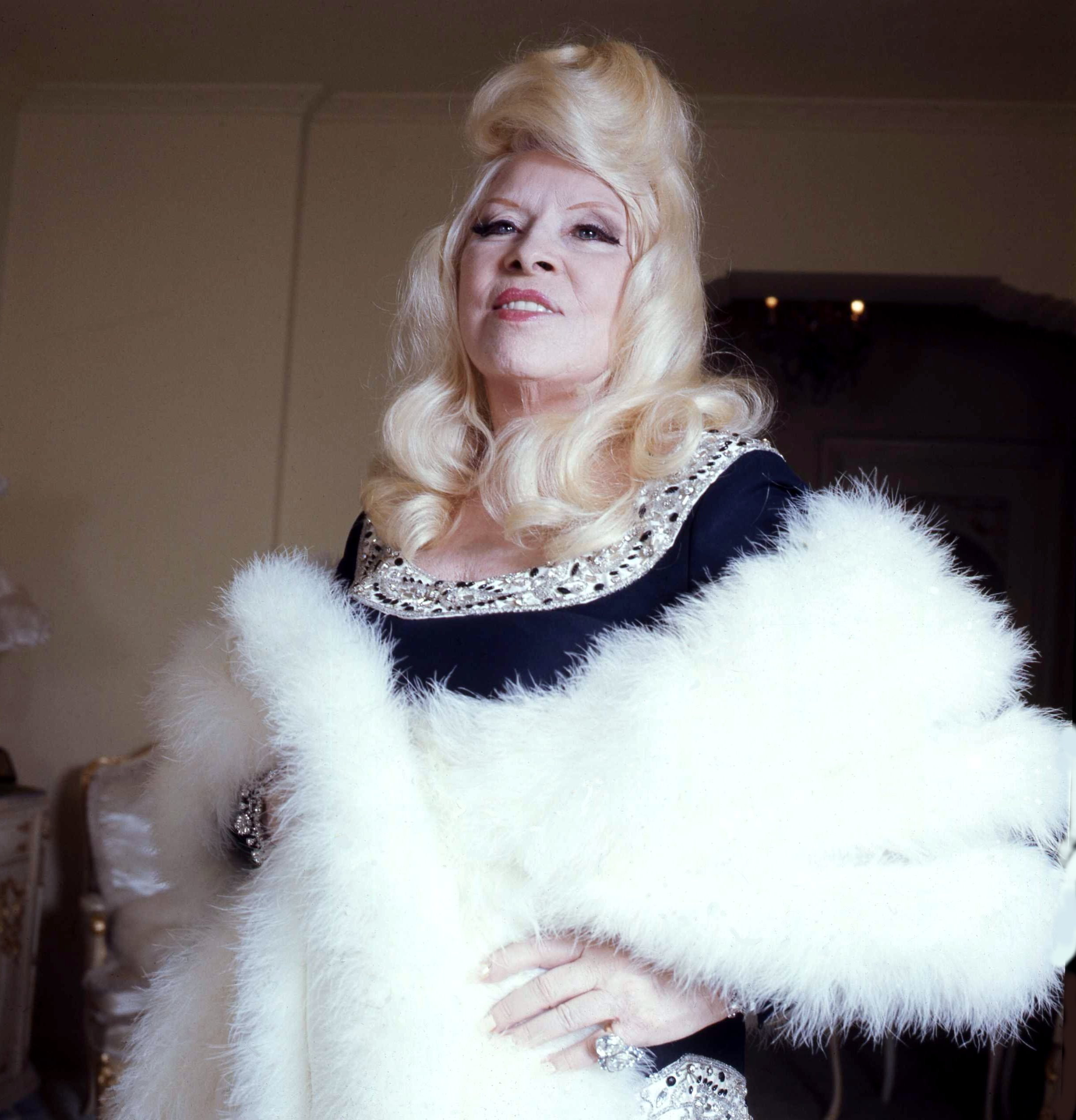 Mae West in her apartment in Los Angeles